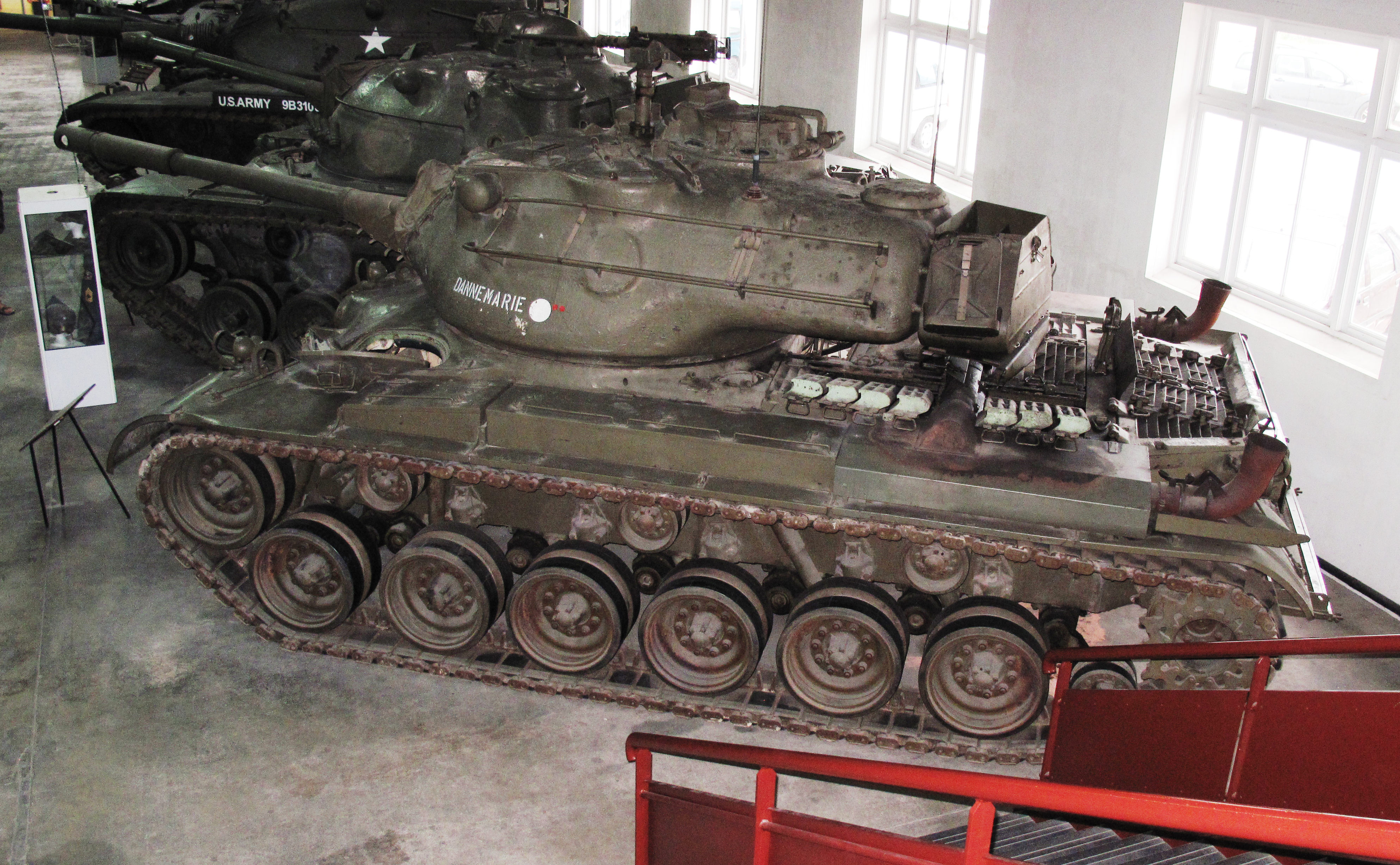 M47 Patton. On display at Saumur Général Estienne museum.